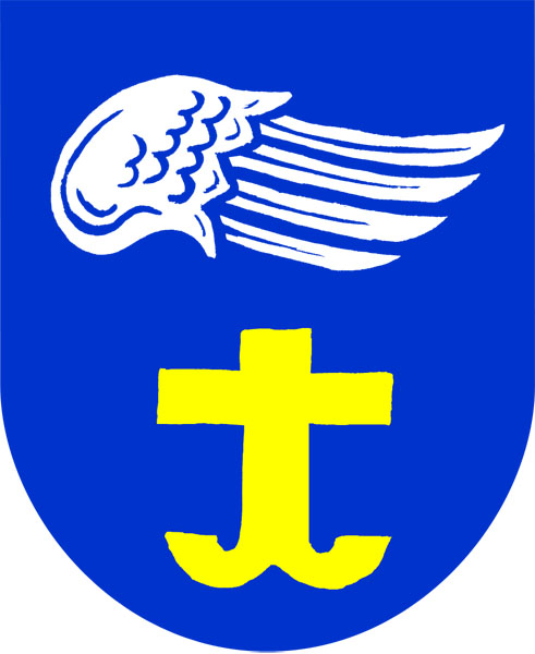 Municipal coat of arms of Odolena Voda town, Prague-East District, Czech Republic.